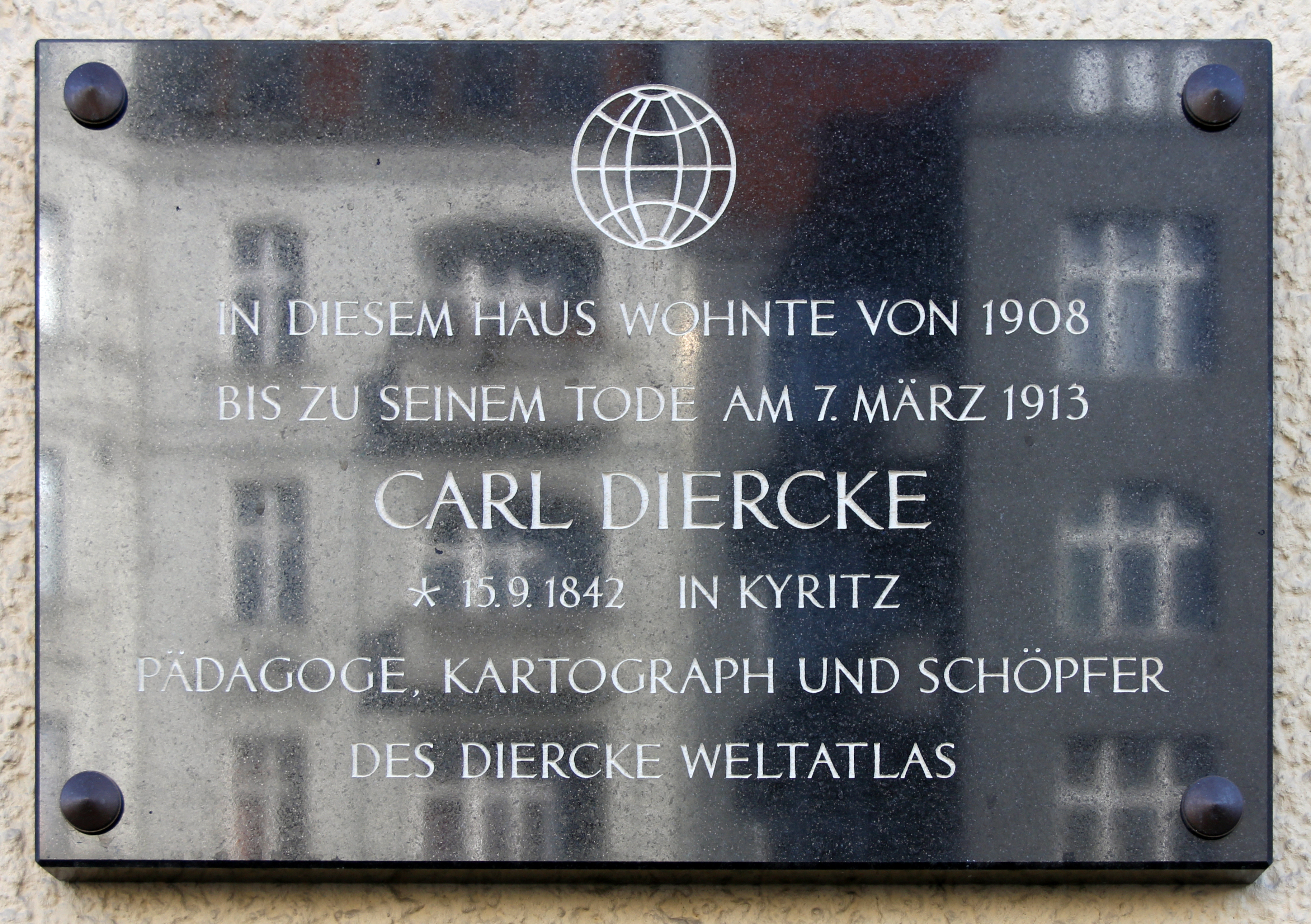 Memorial plaque, Carl Diercke, Bundesplatz 12, Berlin-Wilmersdorf, Germany